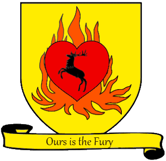 A fictional coat of arms. The personal coat of arms of Stannis Barratheon. Shows a red heart engulfed in orange flame on a field of yellow. Within the heart is a crowned black stag. Underneath is a scroll bearing a motto: Ours is the Fury. The following Commons images were used to create this image: File:Old French Escutcheon.svg by Masur (talk · contribs) File:Coat-elements-2.png by Qyd (talk · contribs) (scroll on bottom) File:Blason famille fr Dunand1.svg by Stella3 (talk · contribs) (stag) File:Scottish crest badge element - Antique Crown.svg by Celtus (talk · contribs) File:Blason Sibilias aux Dures Mains.svg by Chatsam (talk · contribs) (flames, recolored orange) File:COA family sv Krabbe.svg by C.Sundin (talk · contribs) (heart)